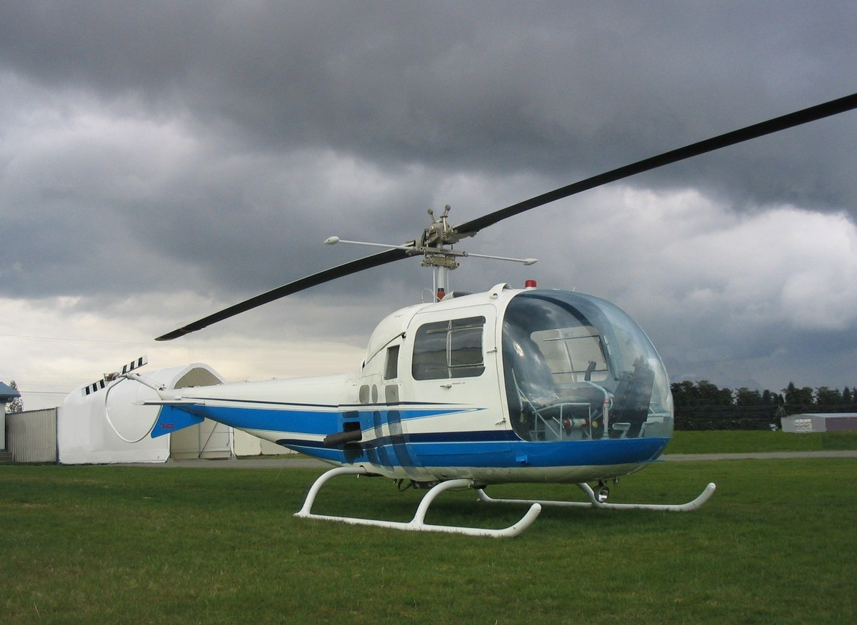 Bell 47J Photo by Meggar